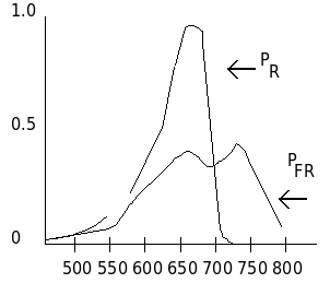 Phytochrome absorbtion spectrum (isolated from Avena sativa L). Horizontal axis - wawelength, nm. Vertical axis is given in relative units. The uploaded figure was manually drawn by me, Audrius Meskauskas, summarising scientific material from Devlin M. (1969) Plant Physiology. Massachusetts: Van Nostrand Reinhold Company. 446., during the time of preparation of my doctoral thesis. I have a PhD in plant physiology.